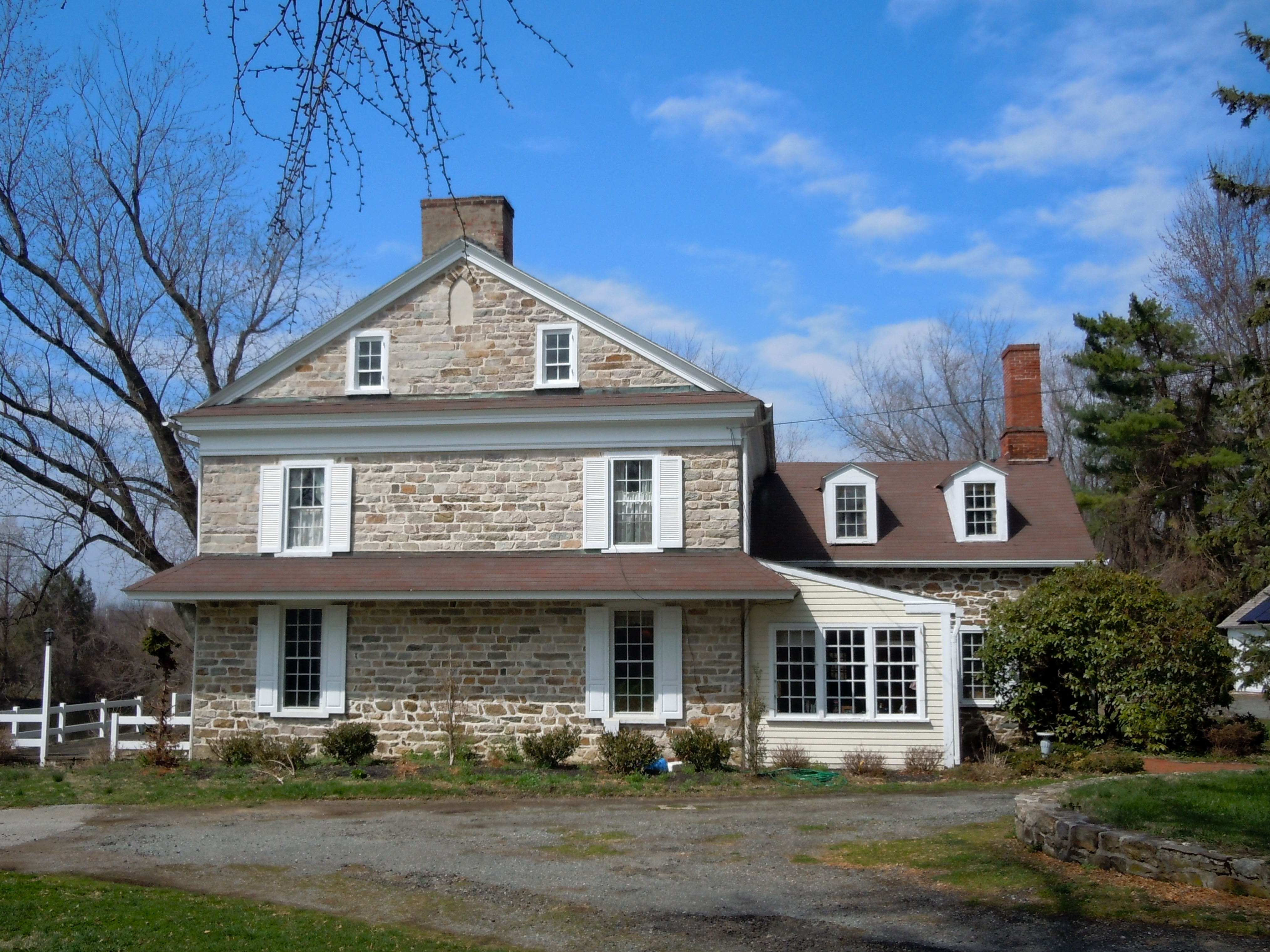 Wheelen House on the NRHP since June 20, 1974. Located northeast of Downingtown on Fellowship Road in Upper Uwchlan Township, Chester County, Pennsylvania.